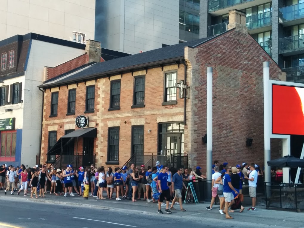 View of Richard West Houses on John St, Toronto